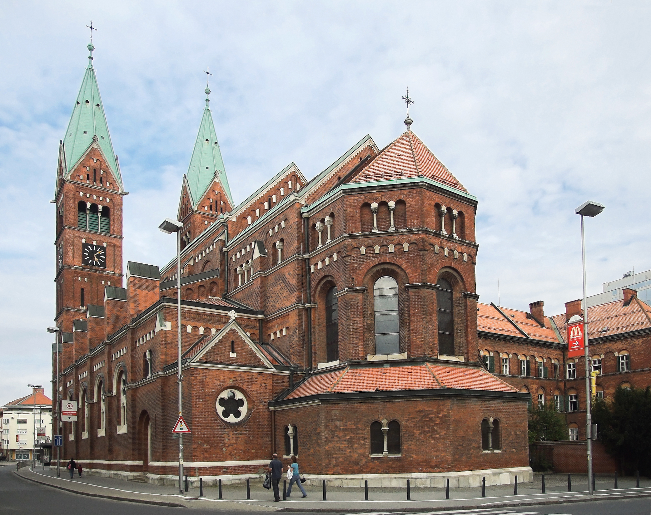 The Franciscan Church of St Mary Mother of Mercy in Maribor, Slovenia.